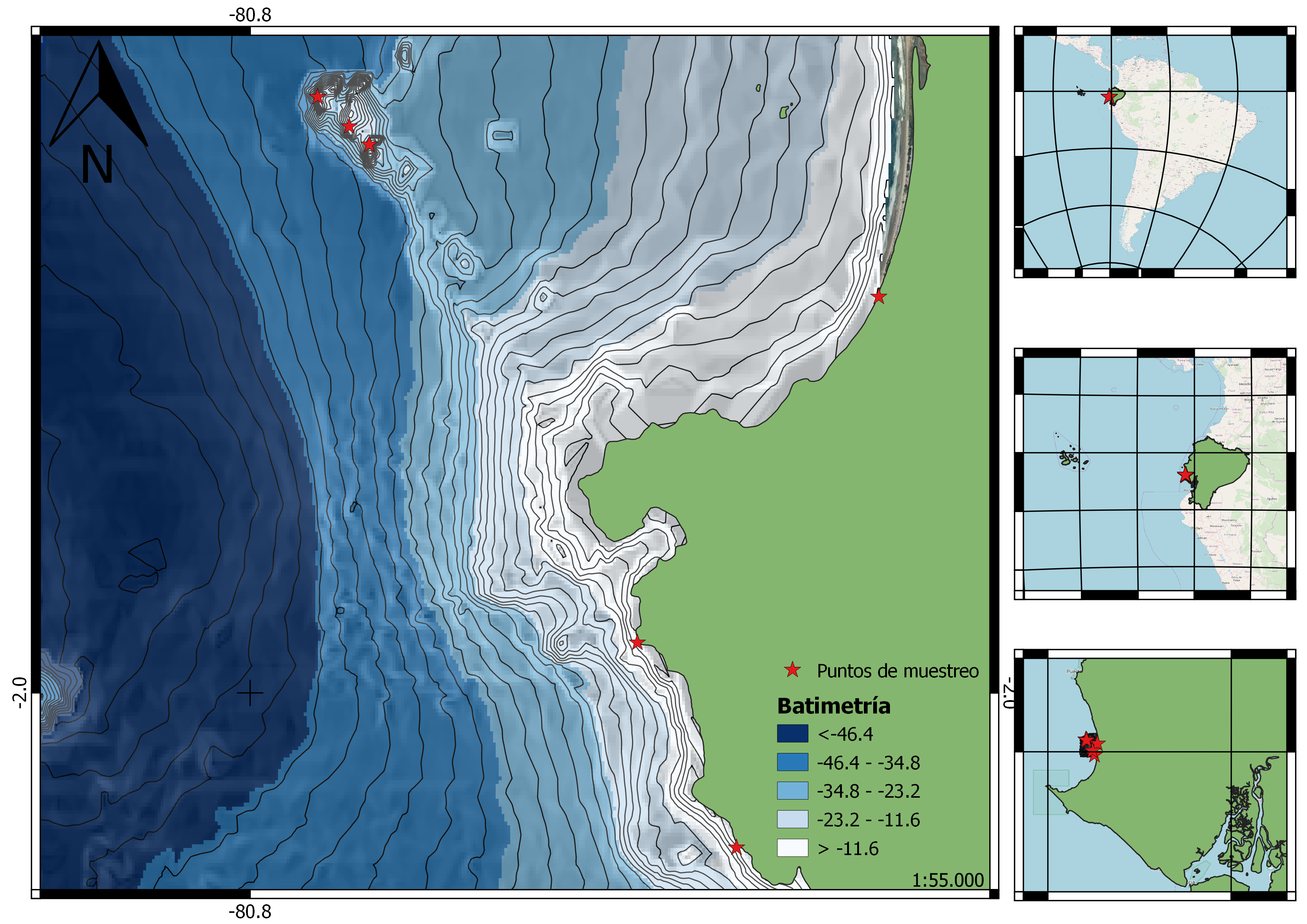 Reserva Marina El Pelado vista espacial y ubicación geográfica